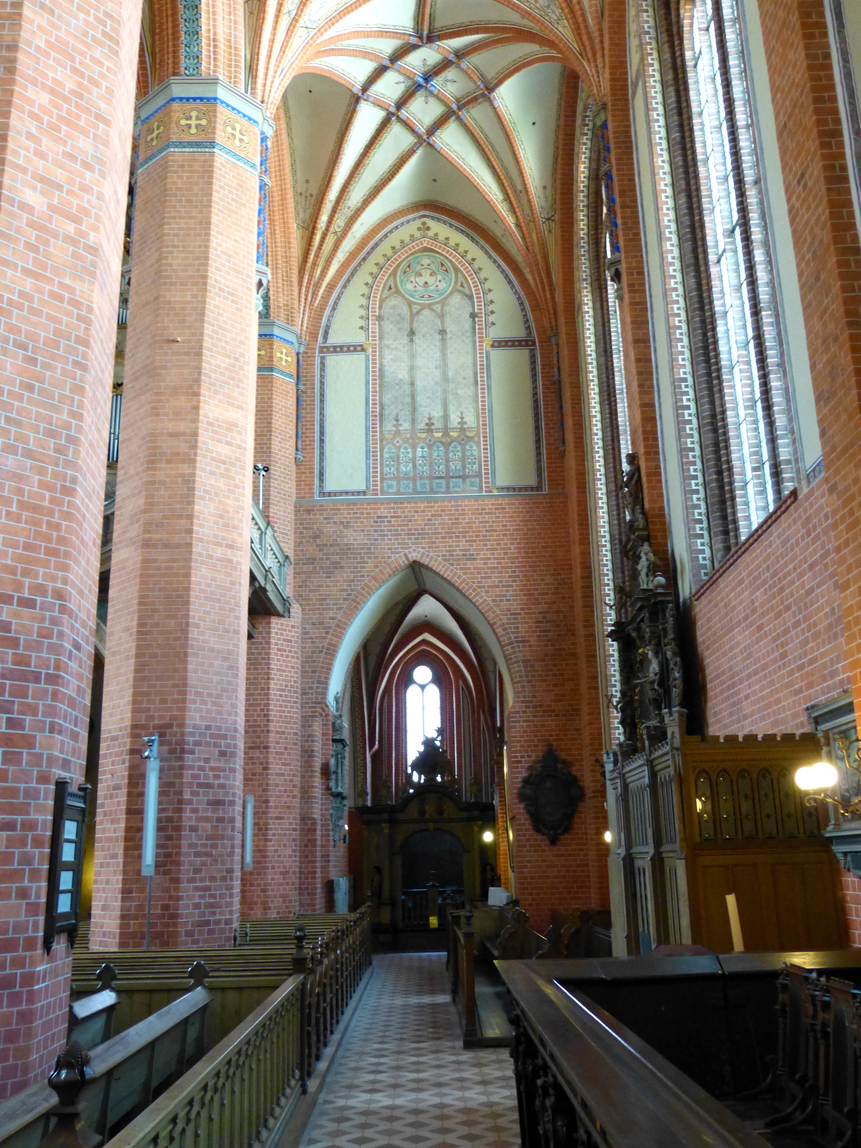 Güstrow ( Mecklenburg-Vorpommern ). Saint Mary parish church: Aile.